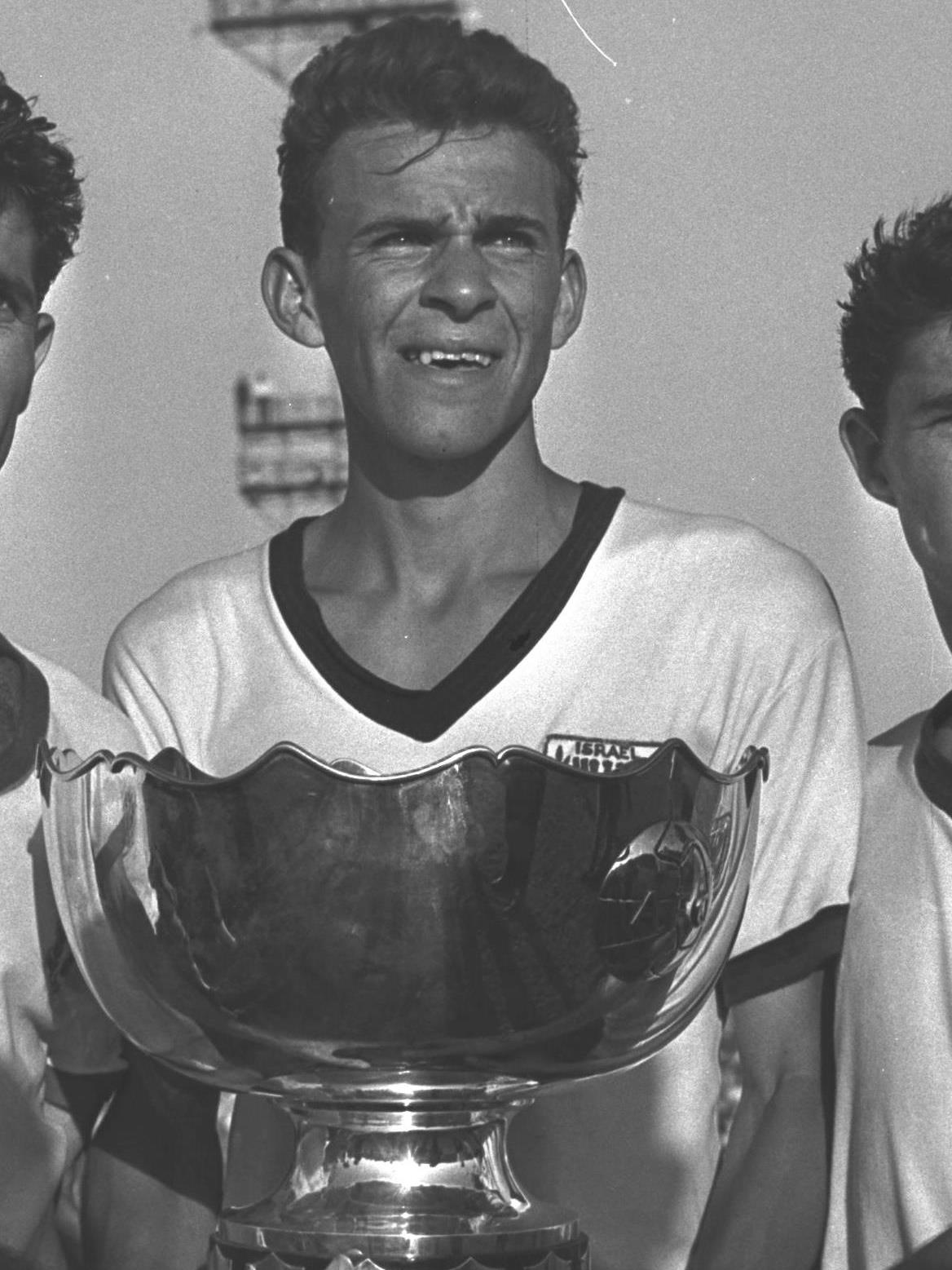 Mordechai Spiegler holds the Asian cup after victory over S. Korea at the Ramat Gan Stadium 1964